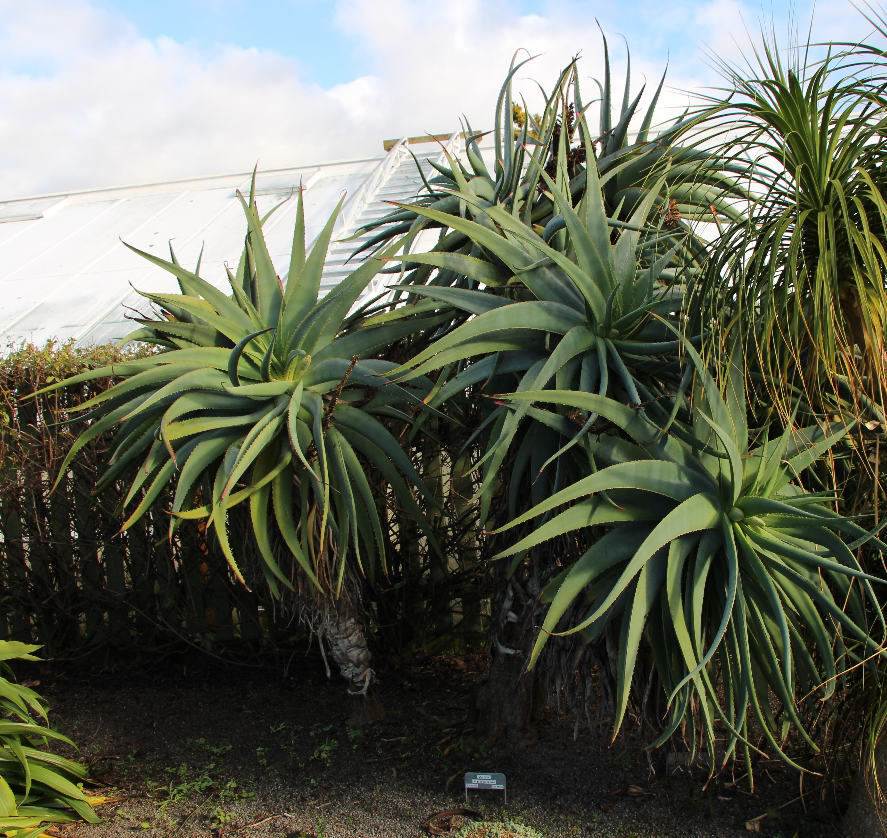 Aloe speciosa. Peter Black Conservatory, Victoria Esplanade Park, Palmerston North, New Zealand